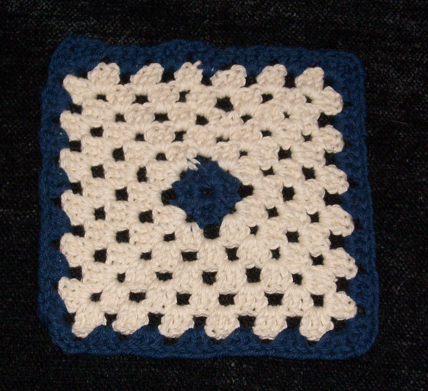 Crochet granny square. Cotton, worked on a 4mm hook.